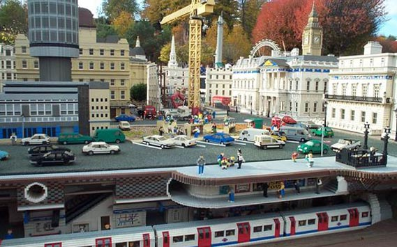 Model of London, including the Tube, as seen in Legoland Windsor. (Leaning of the original picture corrected by Arpingstone.)